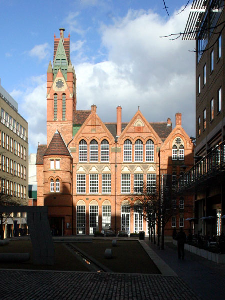 The Ikon Gallery in Brindleyplace, Birmingham. Originally designed by architect J. H. Chamberlain as Oozells Street Board School.